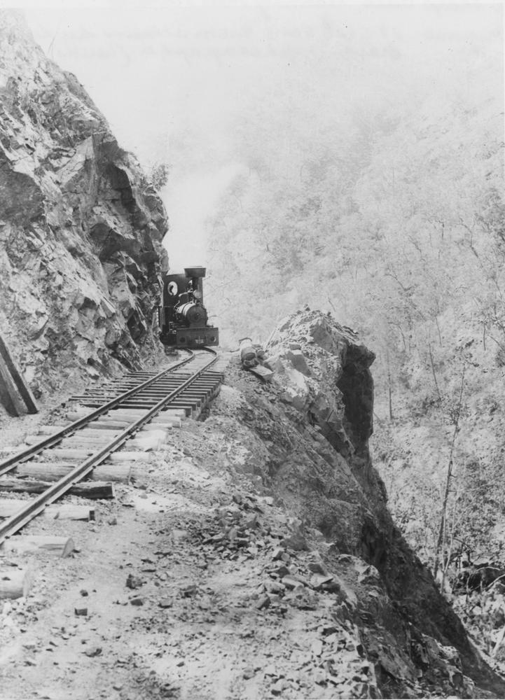 Stannary Hill tramway, 1902 In 1902 a 2 feet gauge tramline was built from Stannary Hills to the Cairns-Chillagoe railway to service the local tin mines. It followed the Eureka Creek valley and joined the railway at Boonmoo. The photograph shows the front of a locomotive coming round a steep bend. The track is laid on a cutting through steep hillside.